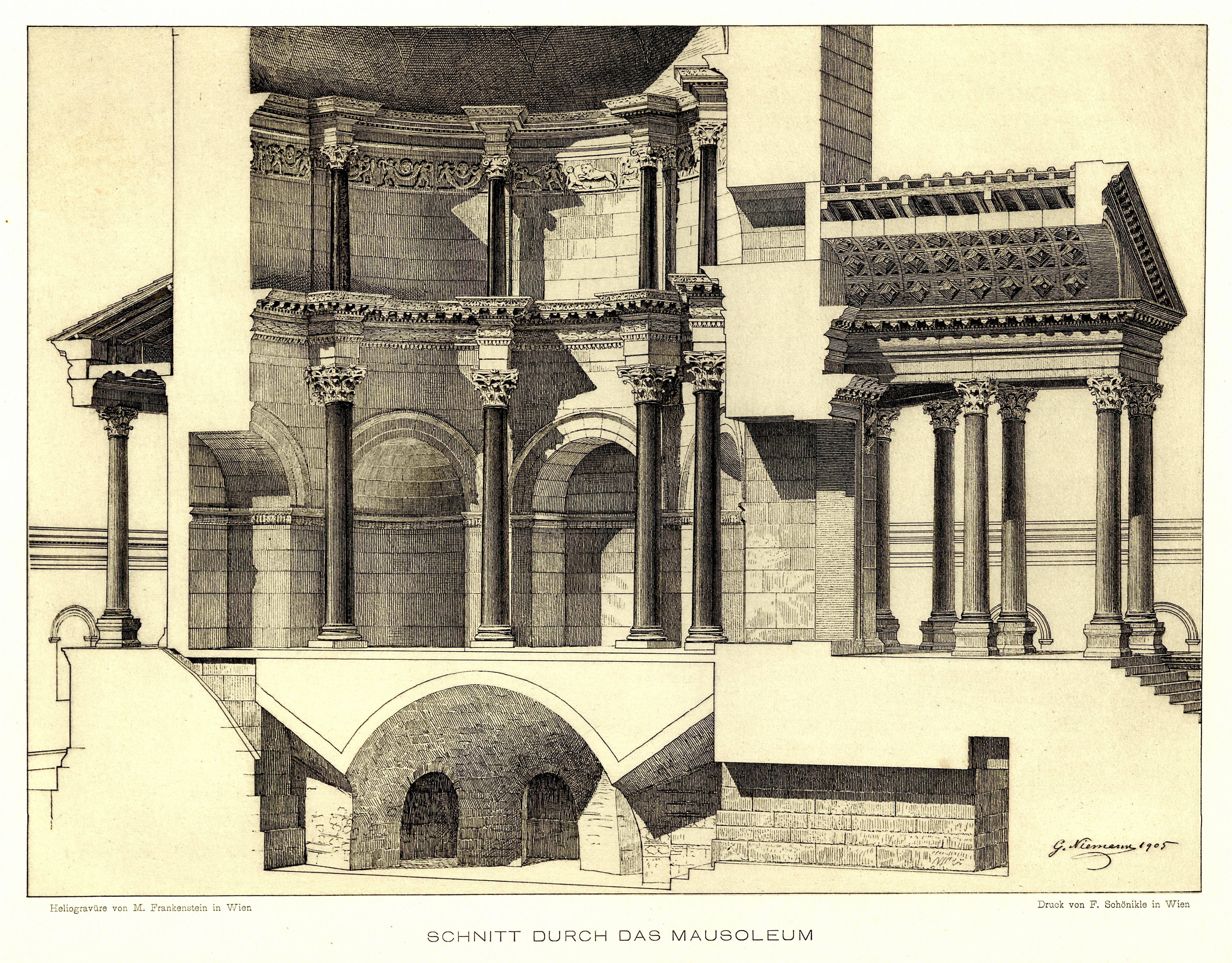 Cut view through the Mausoleum (the future Cathedral).